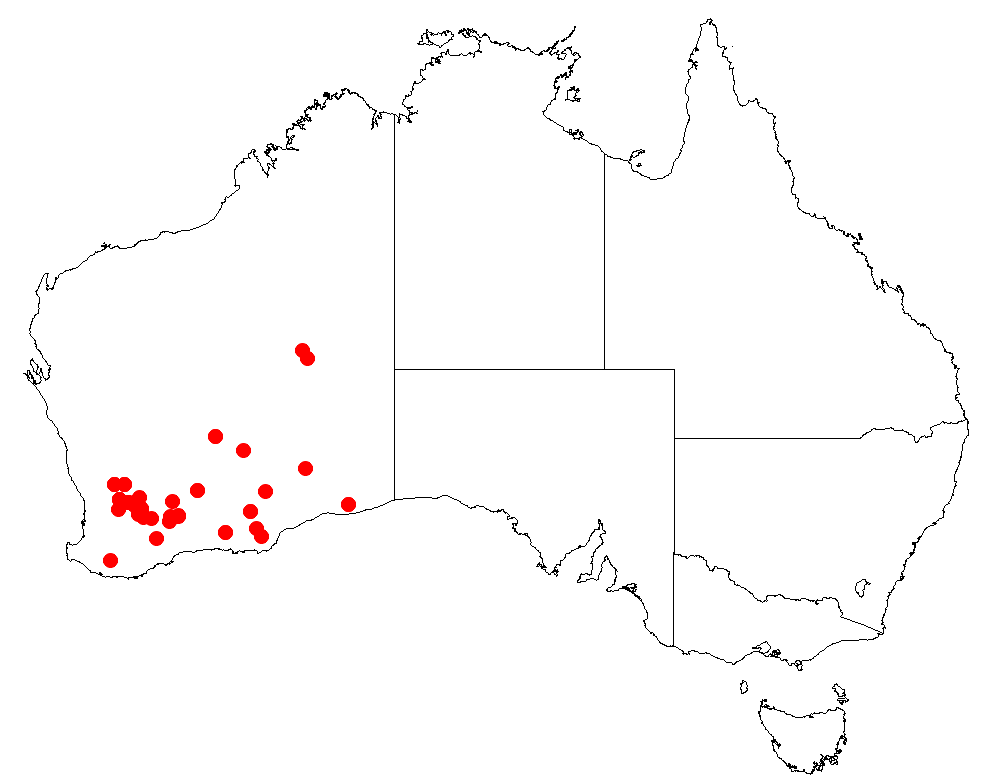 Hakea kippistiana Occurrence data downloaded from Australasian Virtual Herbarium on 22 November 2018 using